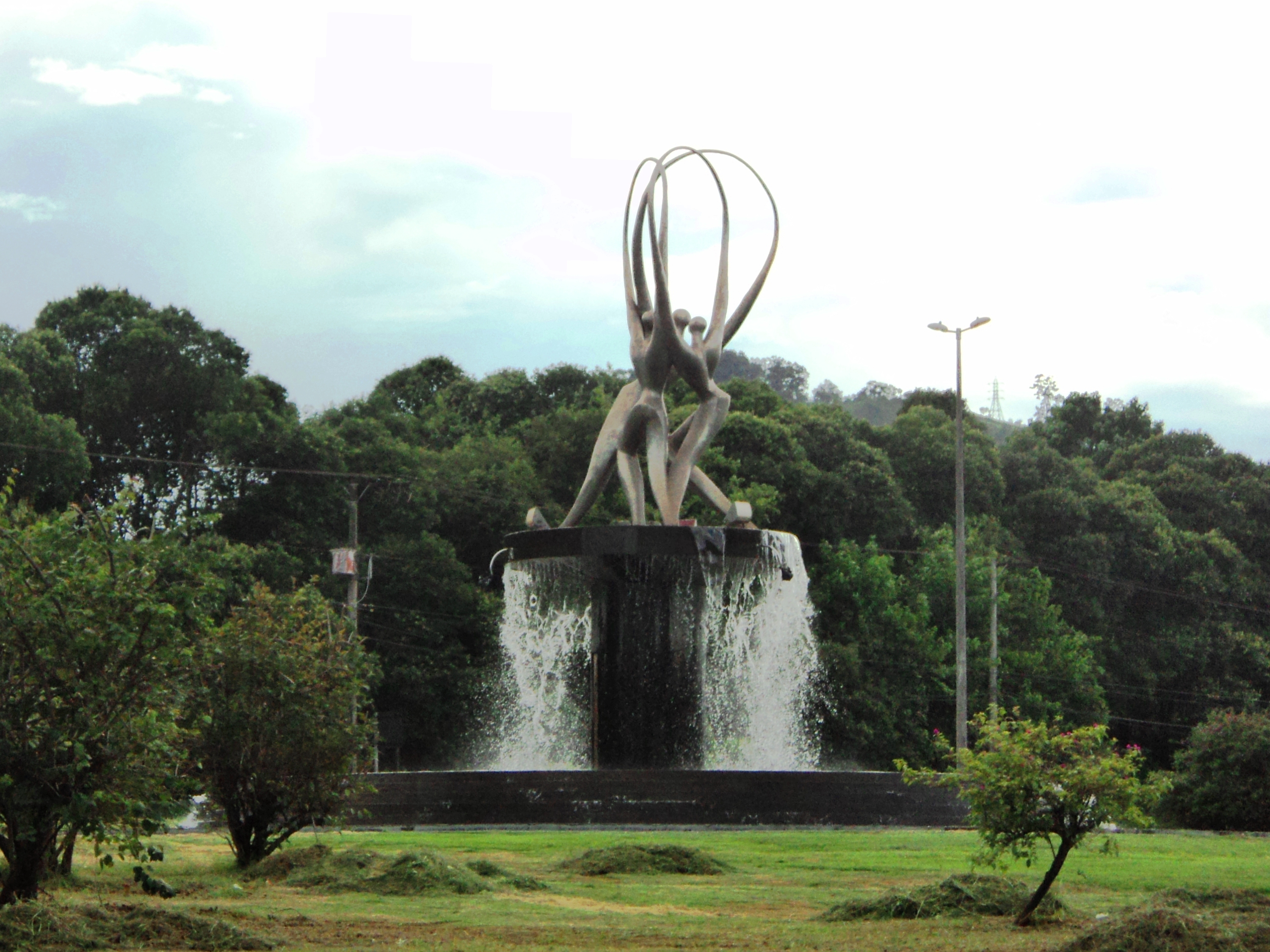 Sinergia Monument, in Timóteo, Minas Gerais, Brazil.